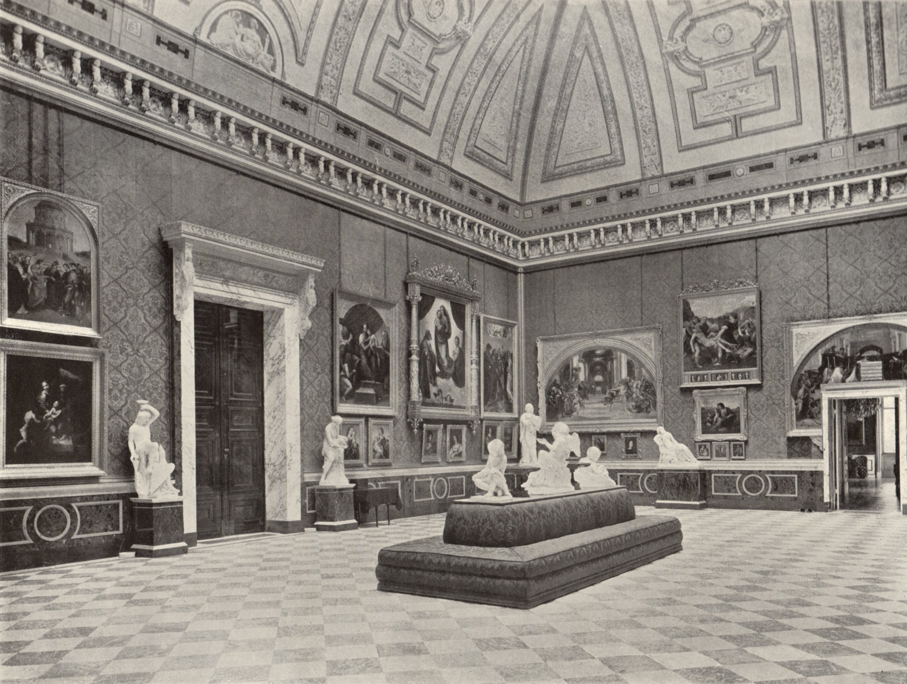 Raffaelsaal in the orangery in Sanssouci (Potsdam, Germany around 1900)